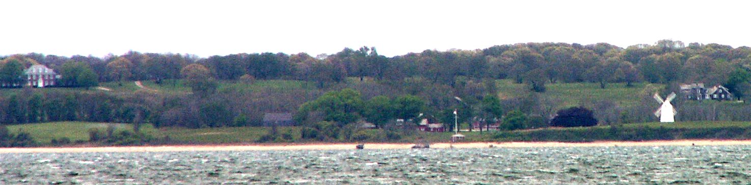 Gardiners Island taken by Roger Rowlett in May 2006 from Springs, New York The island's white windmill is on the right and the manor house is on the left.